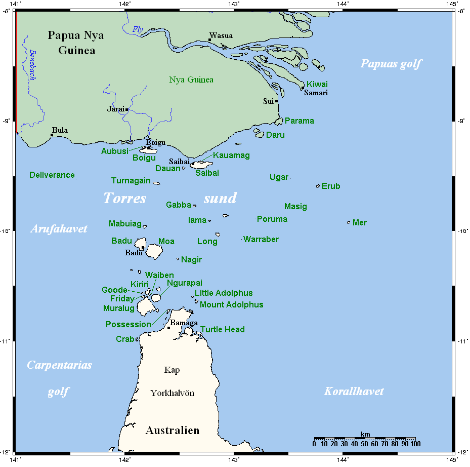 Swedish verson of TorresStraitIslandsMap.png